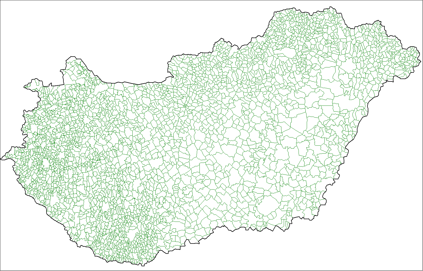 Map of the local administrative units of Hungary (városok, községek, and megyei jogú városok).